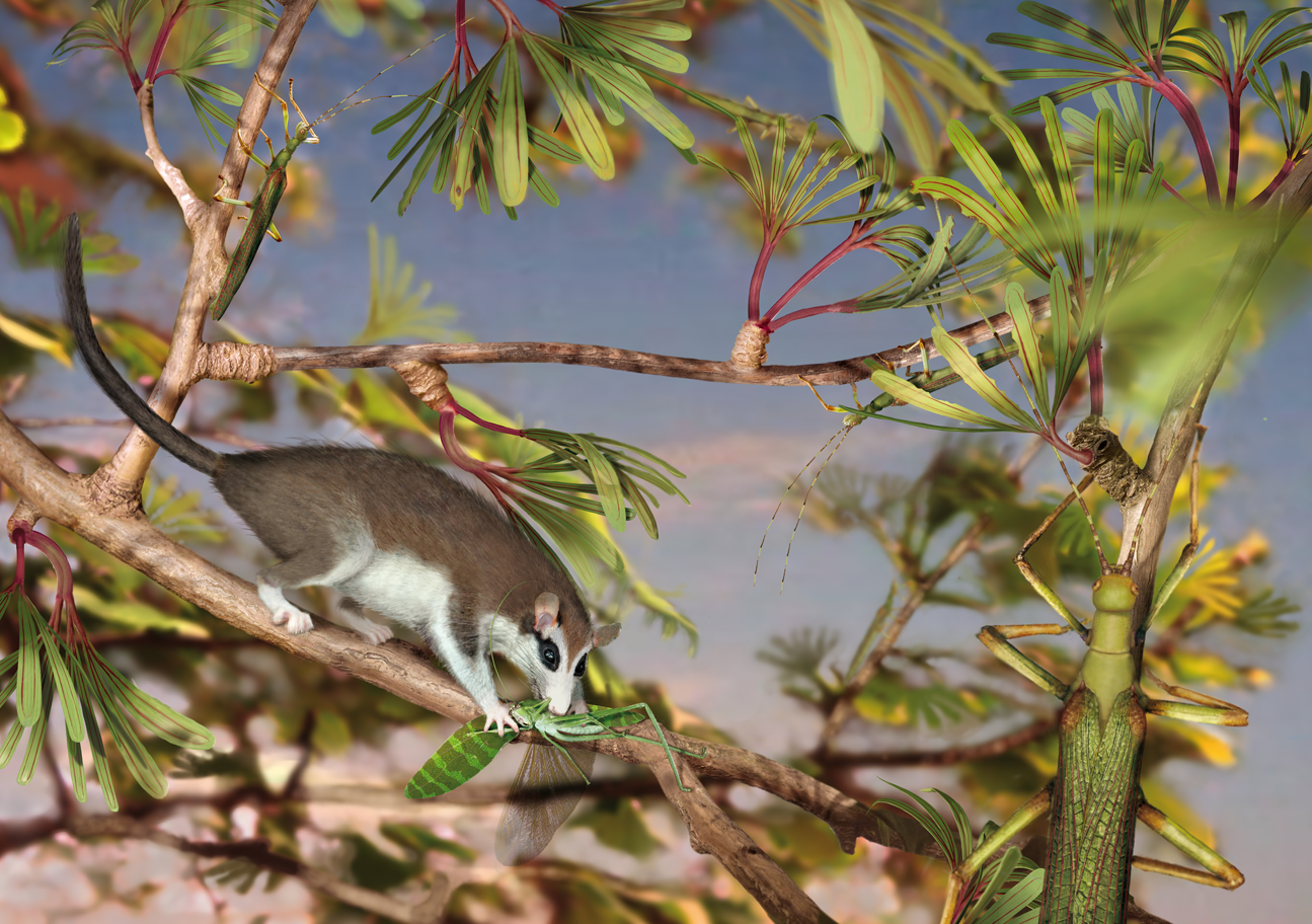 Live reconstruction of Cretophasmomima melanogramma Wang, Béthoux and Ren (several exemplars) among Membranifolia admirabilis Sun and Zheng, 2001 in Sun, Zheng, Dilcher, Wang and Mei, 2001 (interpreted as Gingkophyte leaf organ). A less camouflaged early orthopteran, Parahagla sibirica Sharov, 1968, is captured by the insectivorous Eomaia scansoria Ji, Luo, Yuan, Wible, Zhang and Georgi, 2002, one of the earliest eutherian mammals. Reprinted under a CC BY license, with permission from S. Fernandez.